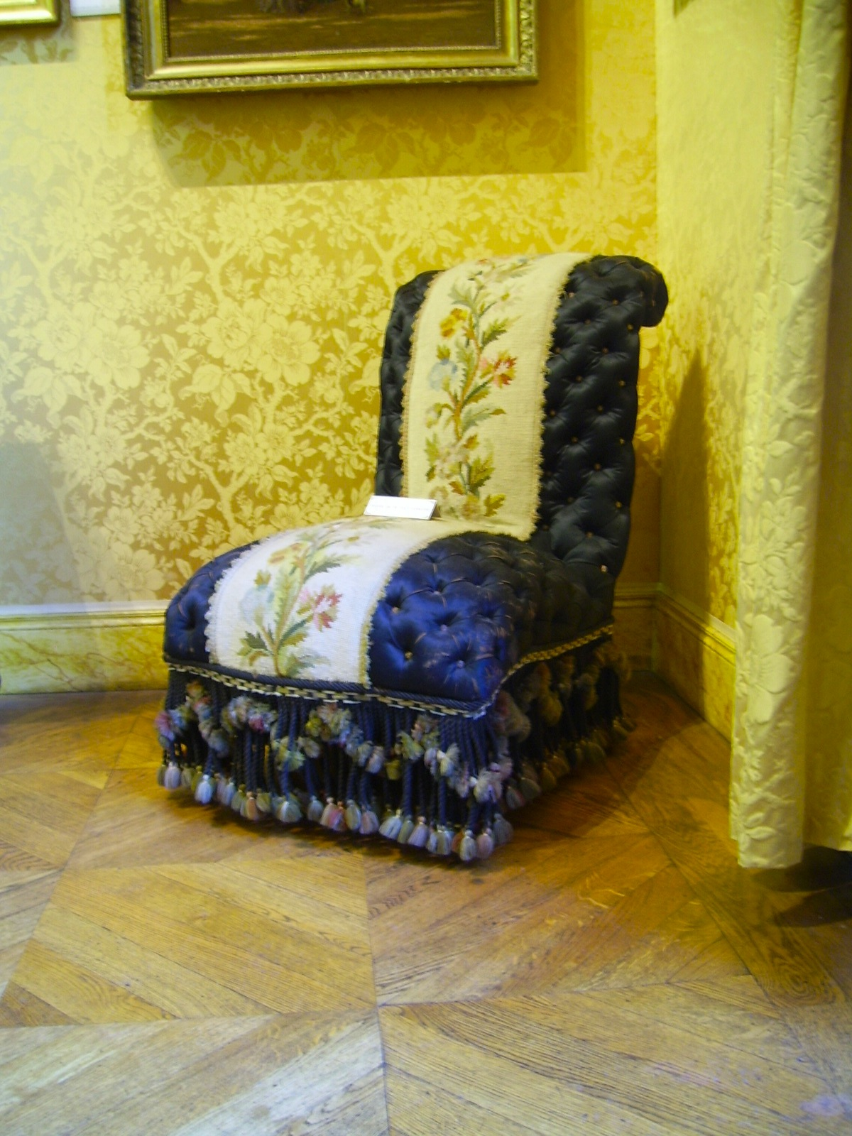 Chair in Musée Carnavalet2, Paris.